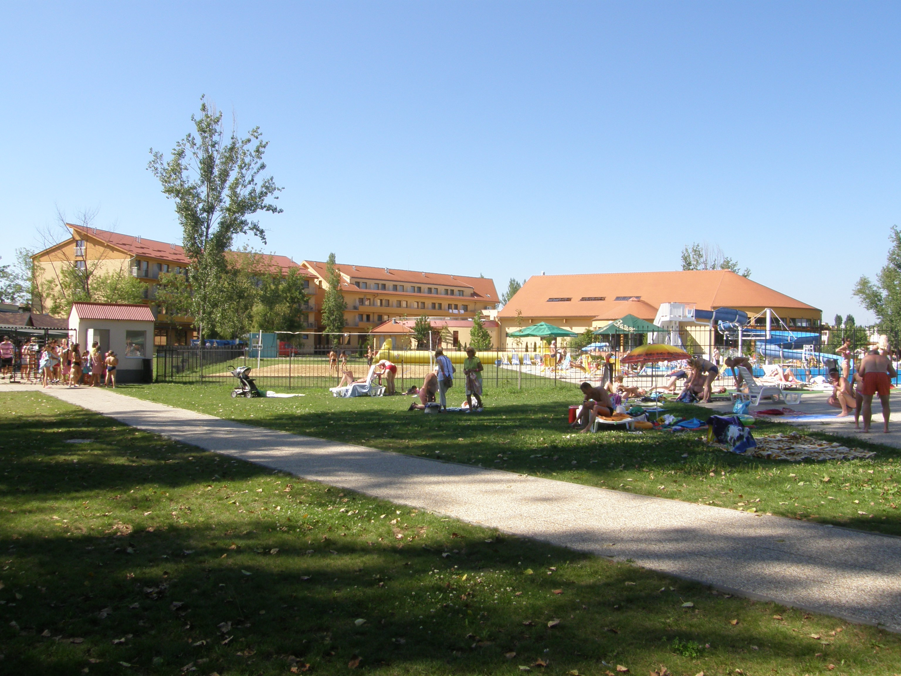 Patince termal